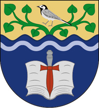 Coat of Arms of Pottum